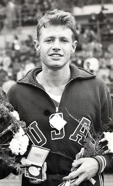 LF57 1952 Wire Photo BARNARD DILLARD DAVIS Olympic Hurdles Display Medals Pose